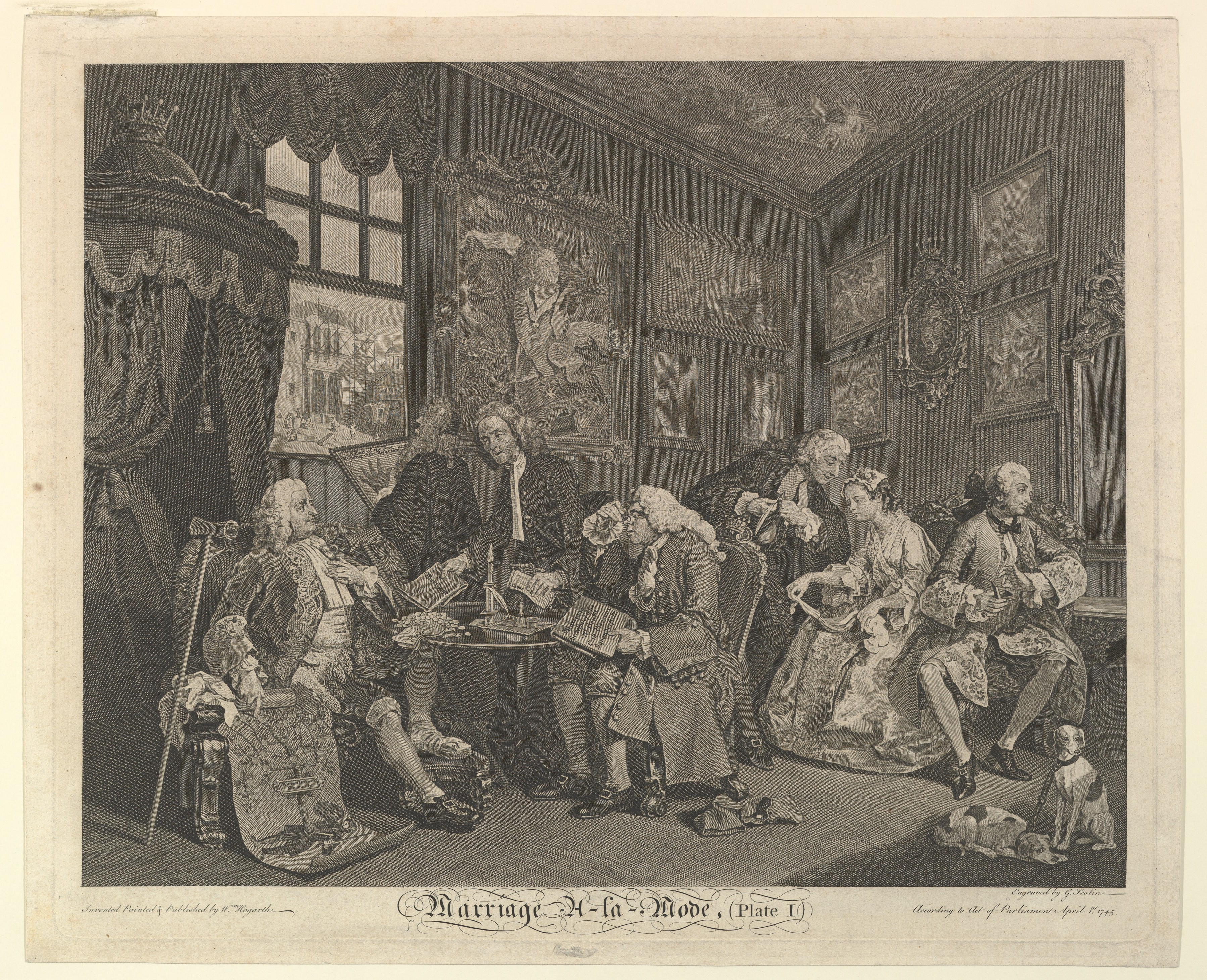 Print; Prints